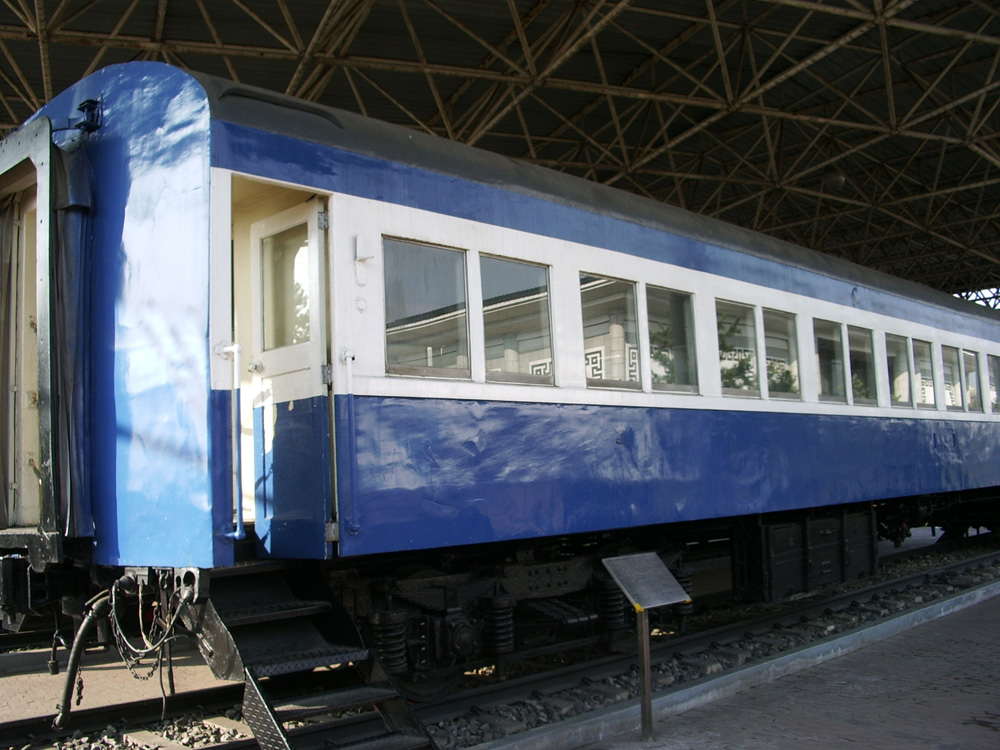 This passenger car was the first model manufactured within South Korea. First introduced in 1959, it served mainline services, and upon introduction of more modern cars, was relegated to basic commuter-level services, known in Korail nomenclature as Bidulgwi (Dove). Car 12061 was the first one produced at Korail's Incheon workshop when it opened in 1962. Weighing 36 metric tons, it carried 118 passengers in fixed seats, meaning that half the passengers would have had to face rearward, common in Europe but undesirable and now rarely seen in South Korea. Design top speed was 110 km/h.